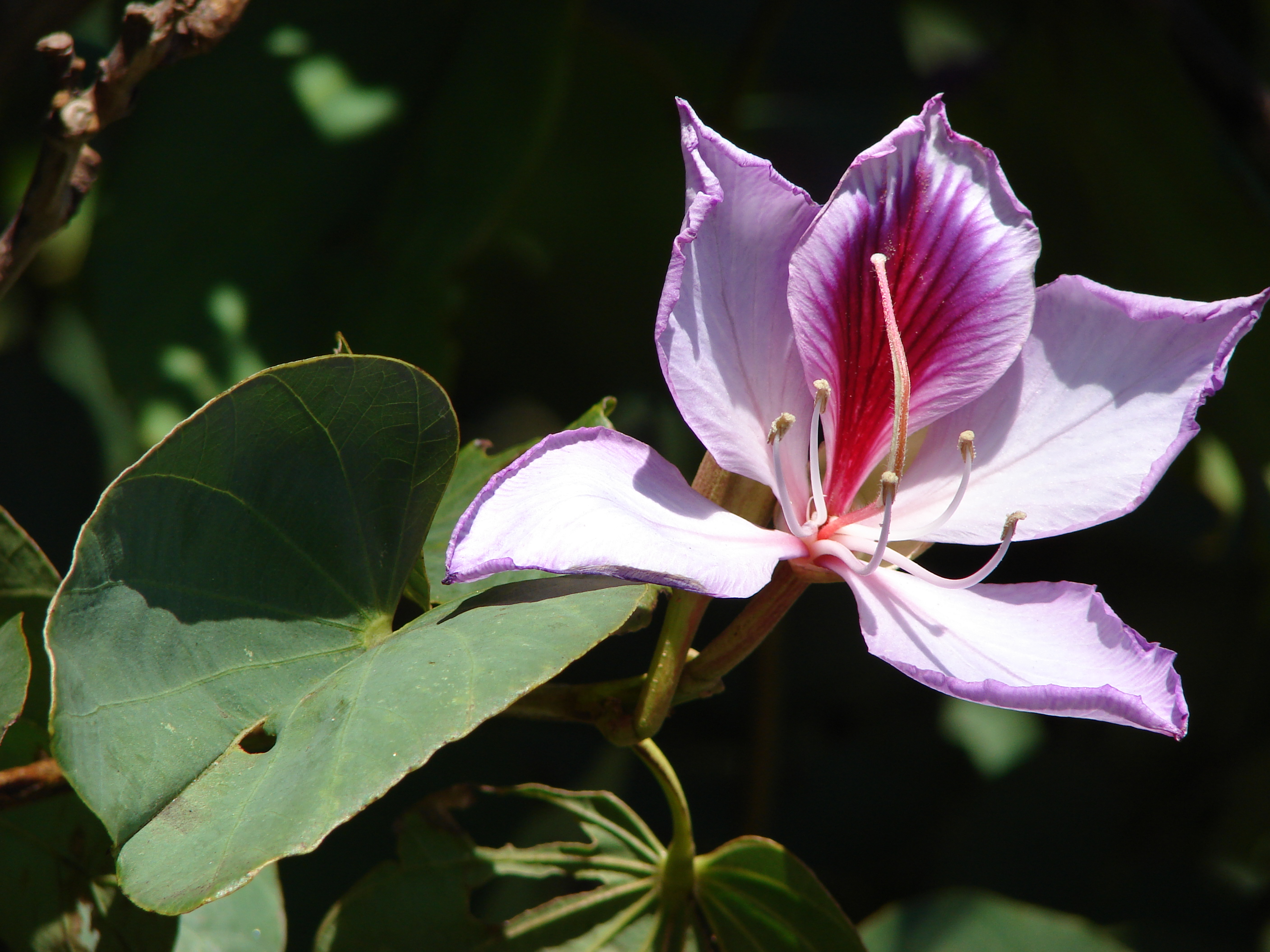 Bauhinia sp. (leaves and flowers). Location: Maui, Makawao